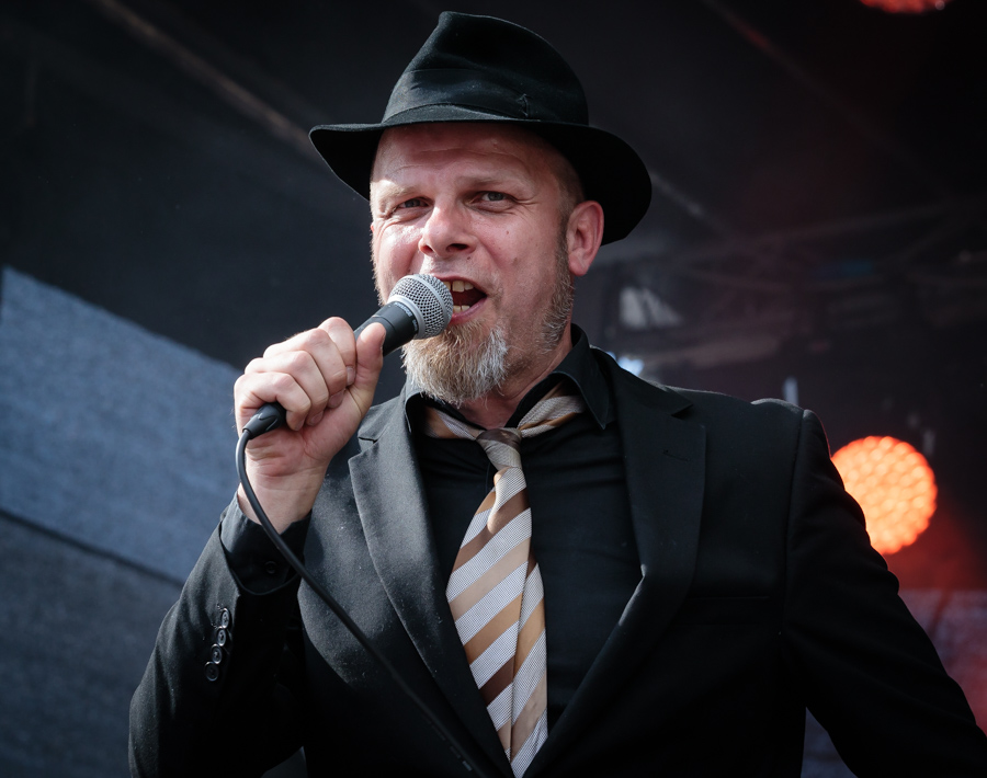 Kjetil Foseid with Vazelina Bilopphøggers at the stage of Gamle Norge. The concert was part of Kongsberg Jazzfestival and took place on 08. July 2017. Lineup: Eldar Vågan (guitar / vocal) Arnulf Paulsen (drums) Jan Einar Johnsen (saxophone) Kjetil Foseid (guitar / vocal) Terje Methi (bass guitar) Tor Welo (keyboard) Even Finsrud (drums)